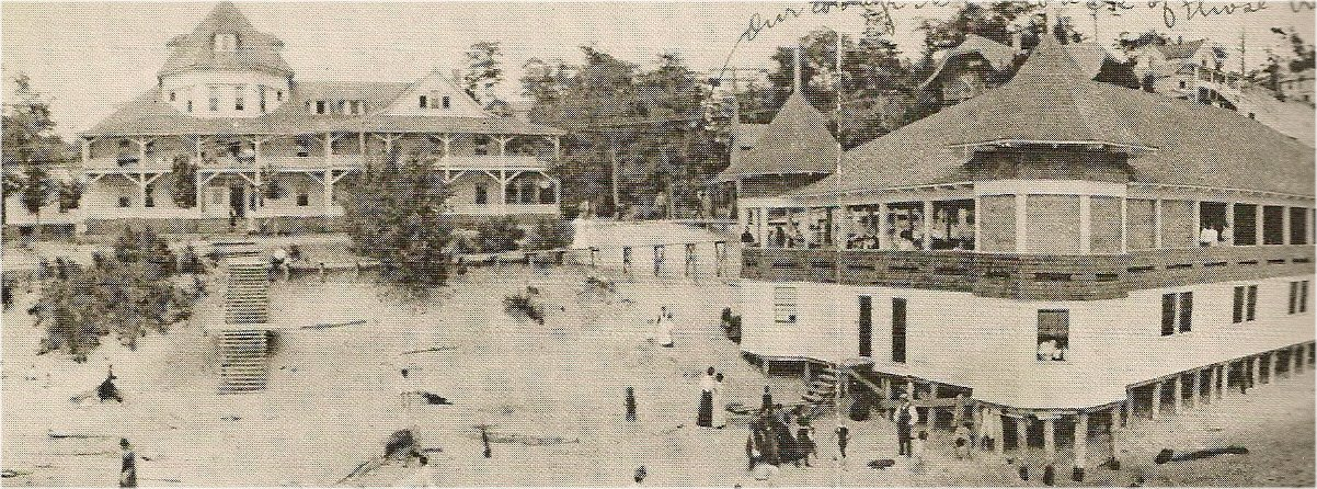 caption on picture reads: The main beach at Epworth Heights. The pavilion is on the rights with the hotel on the left in the background, circa 1908.